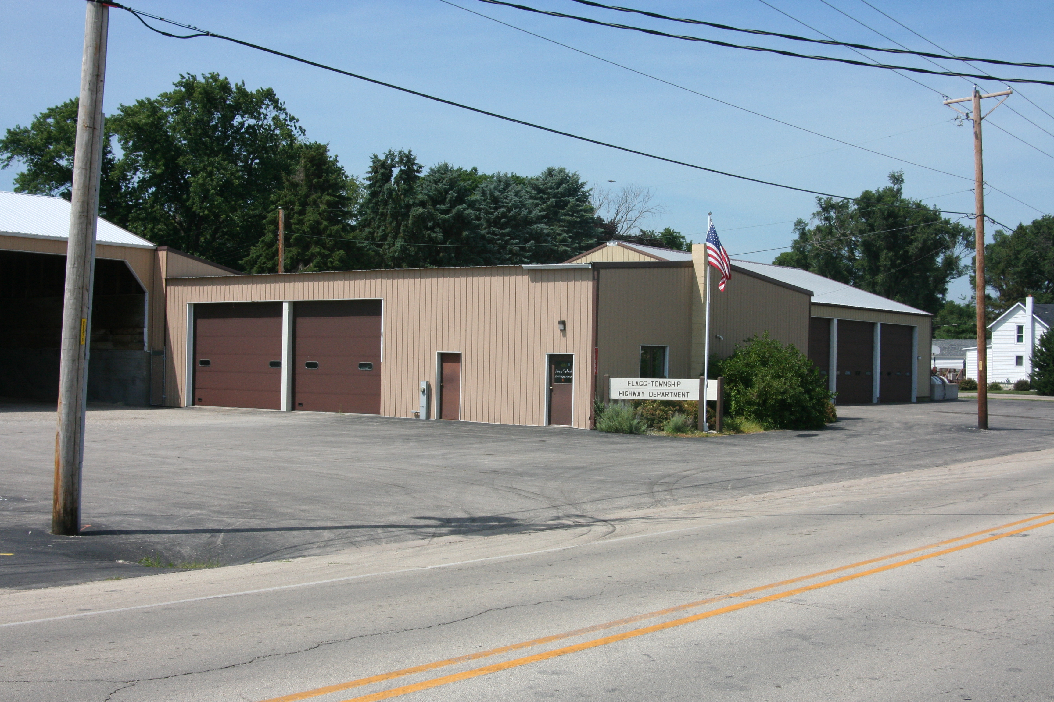 Flagg Township building located in Flagg Center, Illinois, USA.